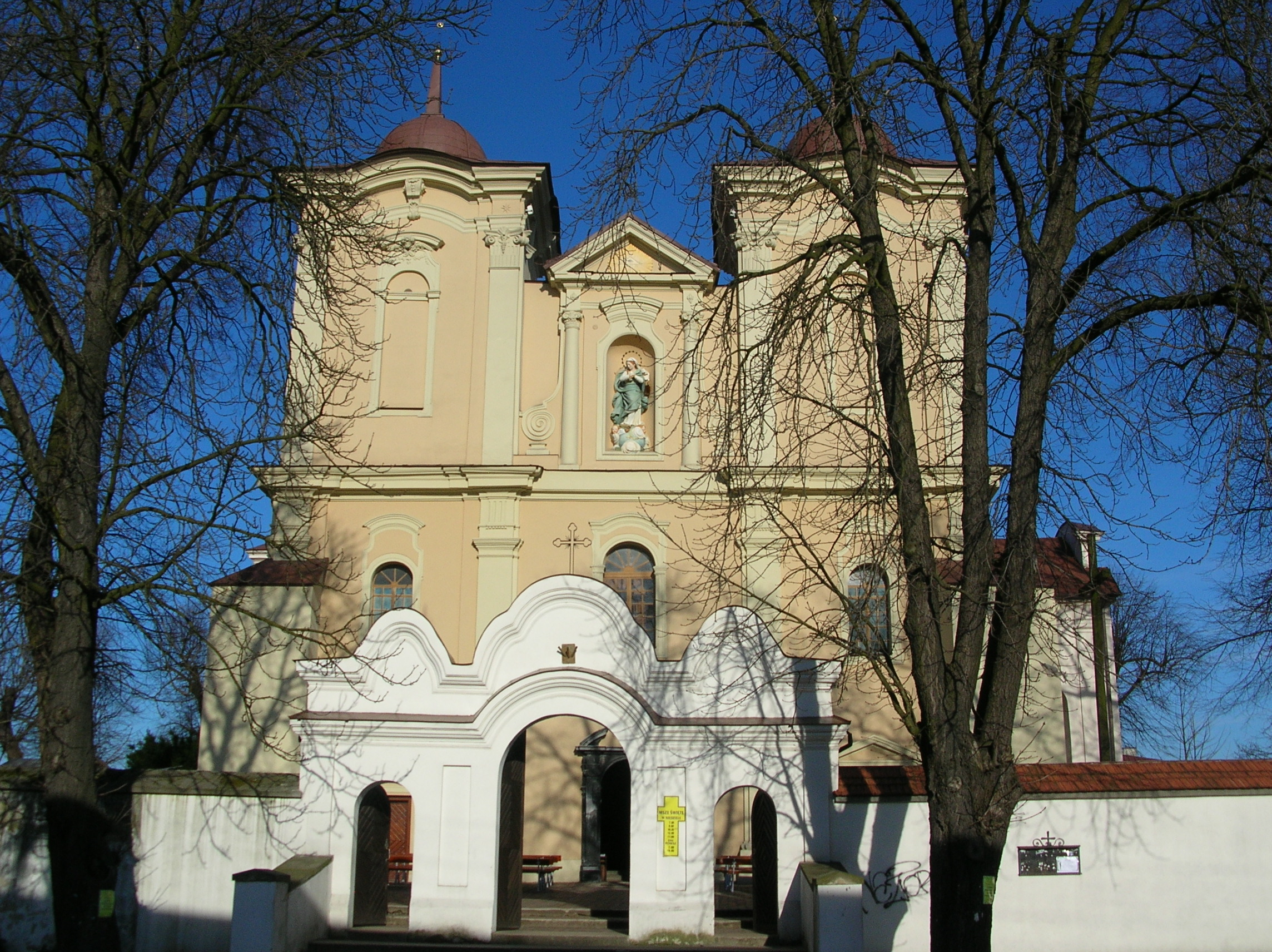 Church in Końskowola